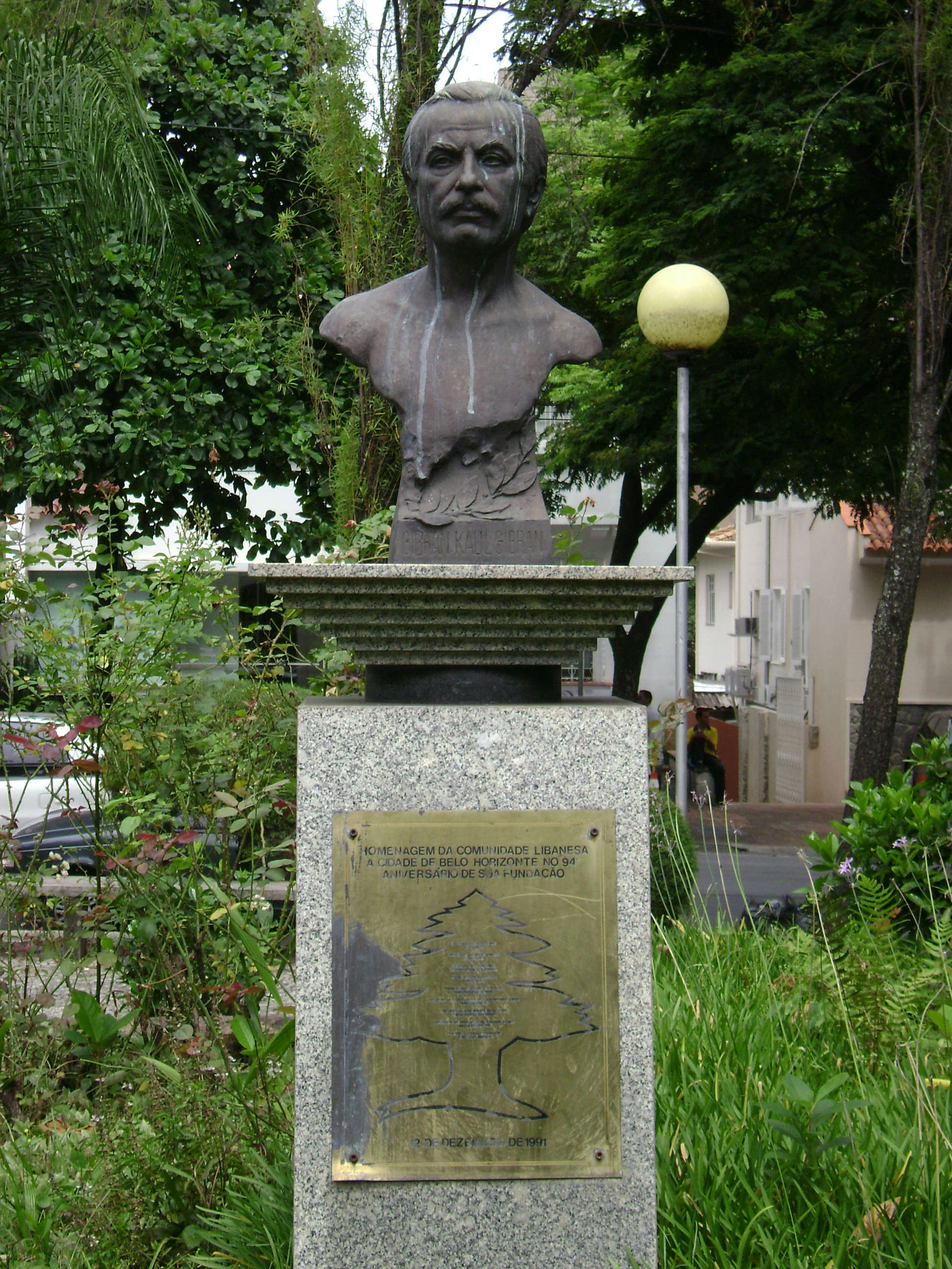 Statue of Gibran Khalil Gibran in José Mendes Júnior square, next to Minas Tênis Clube, in Belo Horizonte, Brazil.